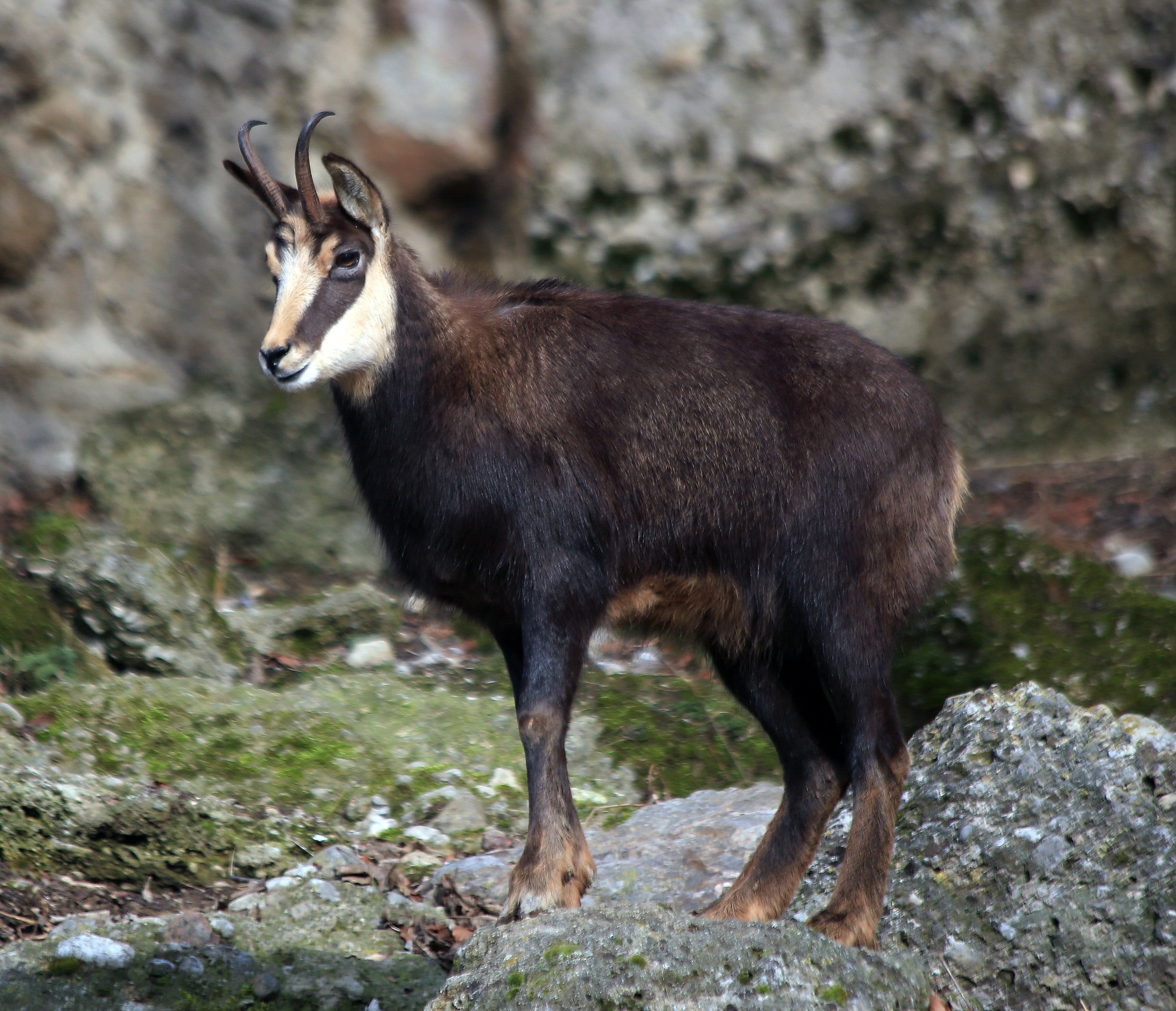 Chamois (Rupicapra rupicapra) in Salzburg Zoo (Salzburg, Austria).